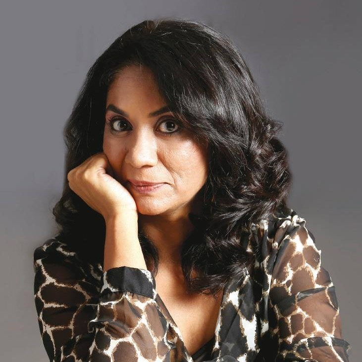 Sandhya Mendonca, Indian Author, Profile